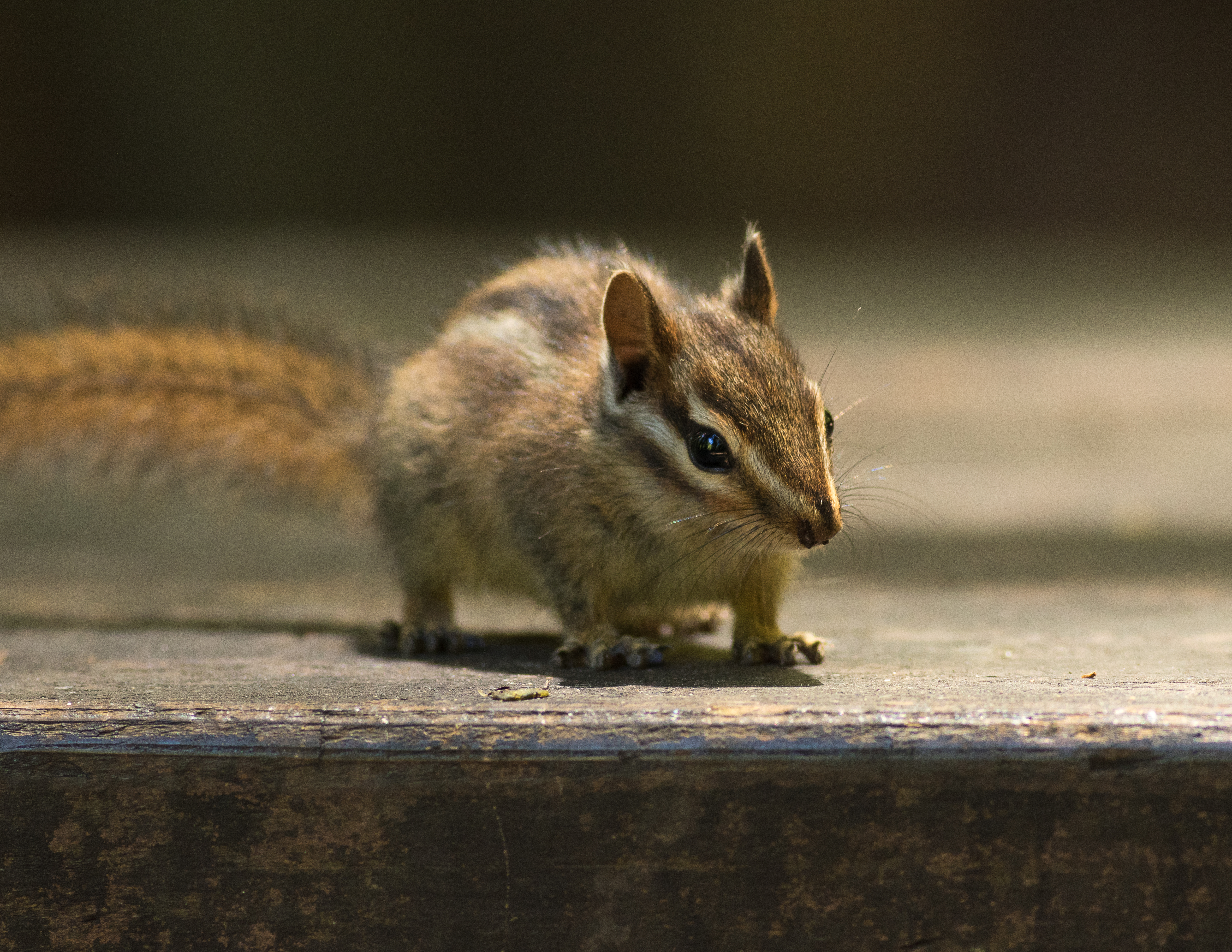 A Sonoma chipmunk (Tamias Sonomae) searching for food on a picnic table at Camp Taylor, Samuel P. Taylor State Park